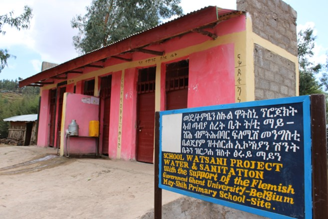 Mashih latrine